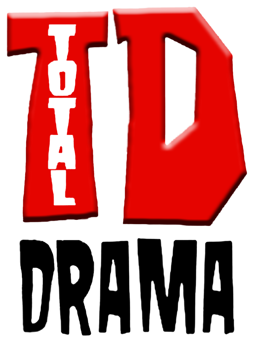 High Resoulution Copy of Total Drama Logo designed in Photoshop. Based on the original logo.